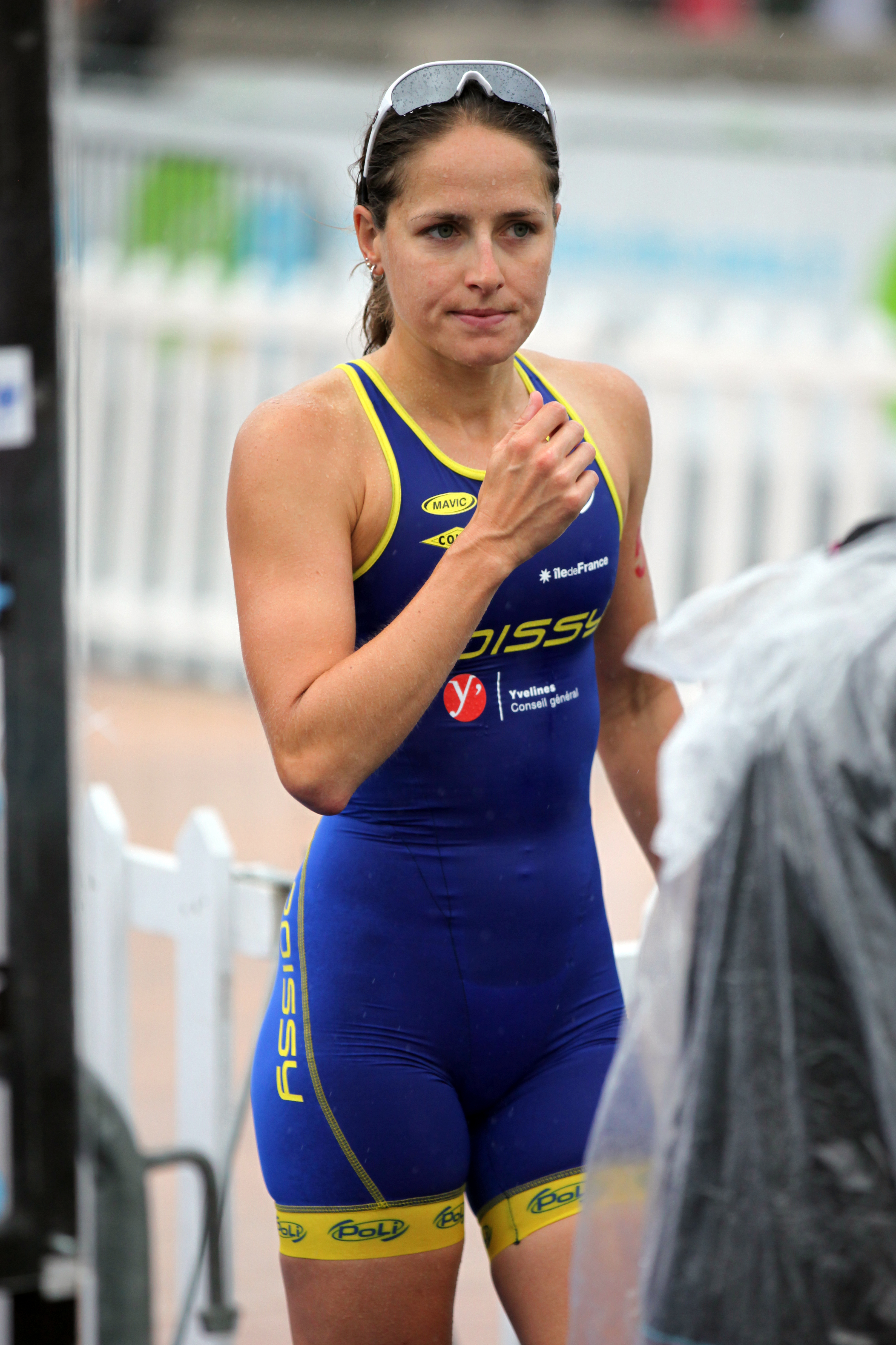 Erin Densham at the French Club Championship Series triathlon (Grand Prix de Triathlon Lyonnaise des Eaux) in Paris, 2011.